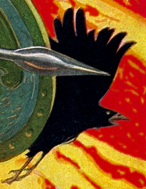 Detail of Battle Crow from "Cú Chulainn riding his chariot into battle" by Joseph Christian Leyendecker (1874 - 1951)